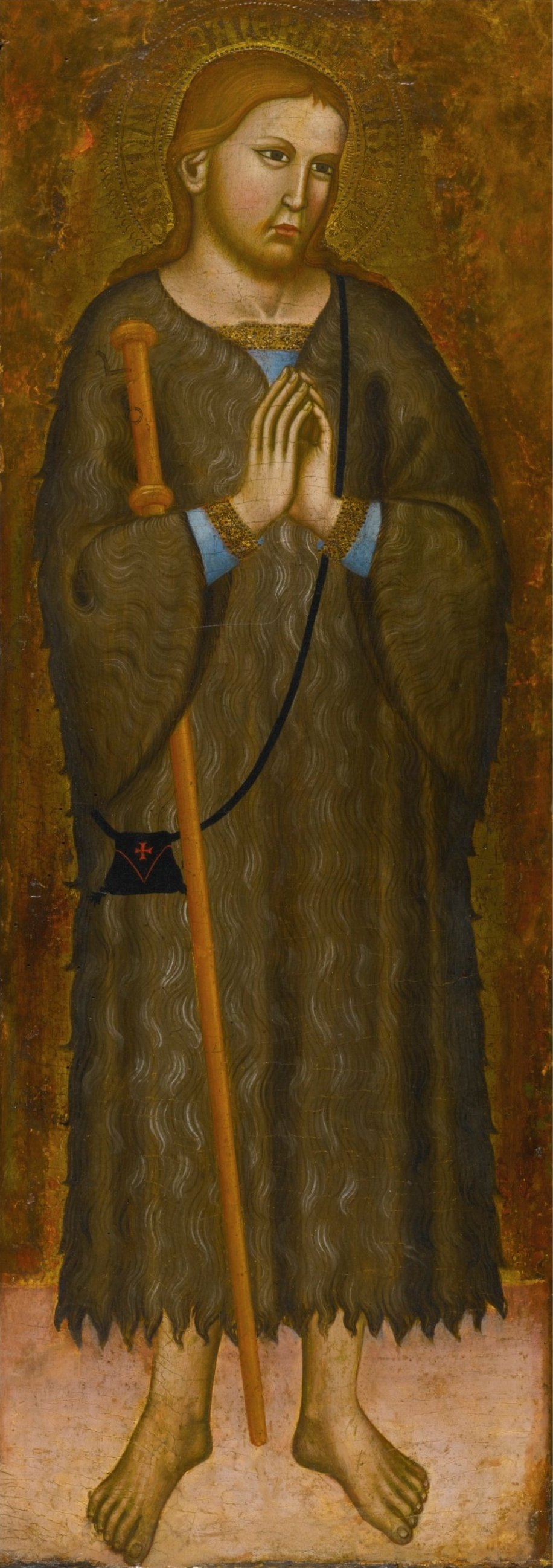 Saint Rainerius by Cecco di Pietro, tempera on panel, gold ground, 93.2 by 34.1 cm.